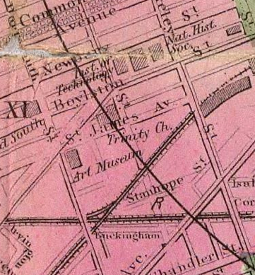 Art Square area in the Back Bay, Boston 1888